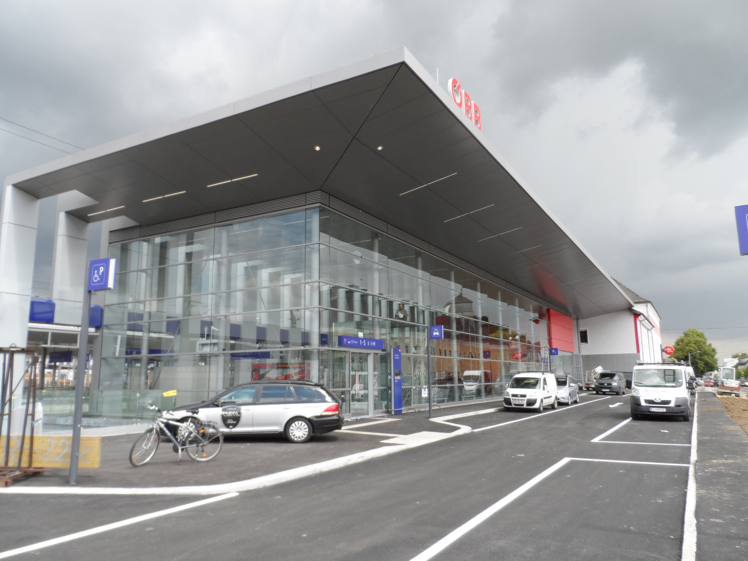 Train station Attnang-Puchheim in Upper Austria